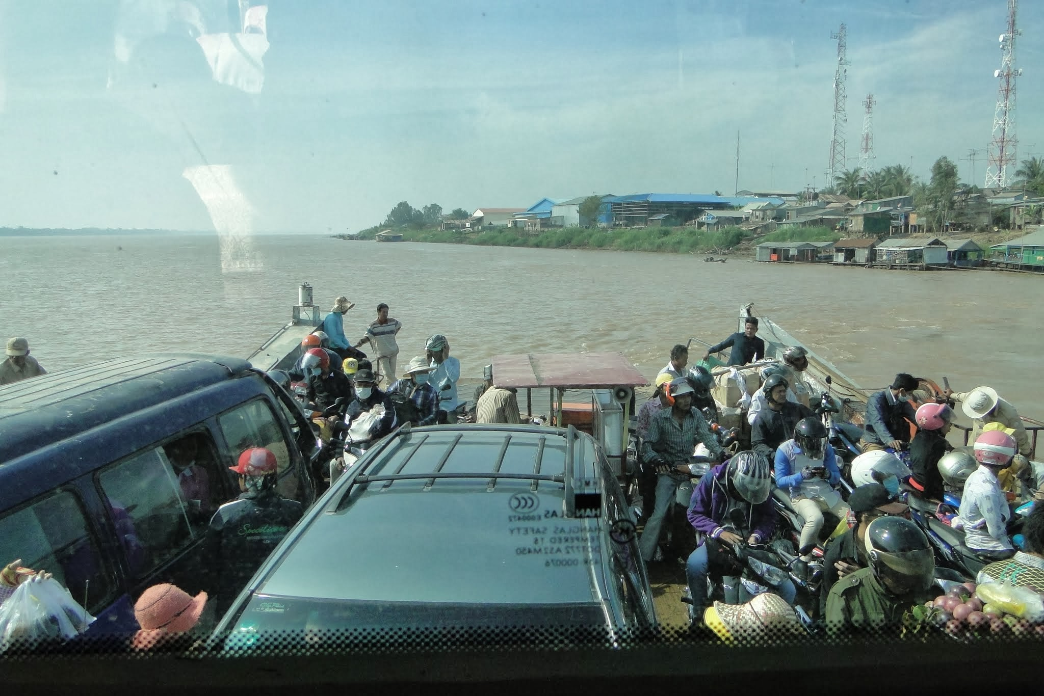 Mekong ferry